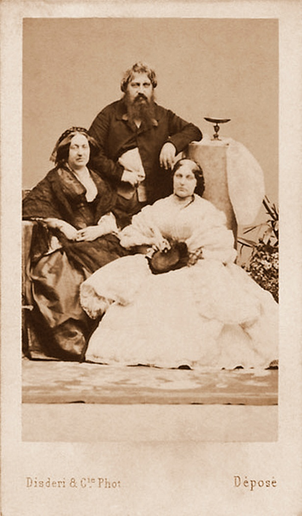 Charles of Bourbon-Naples, prince of Capua (1811-1862) with his morganatic wife Penelope Smyth (1826-1882), countess of Mascali, and their daughter Vittoria, countess of Mascali (1838-1905).